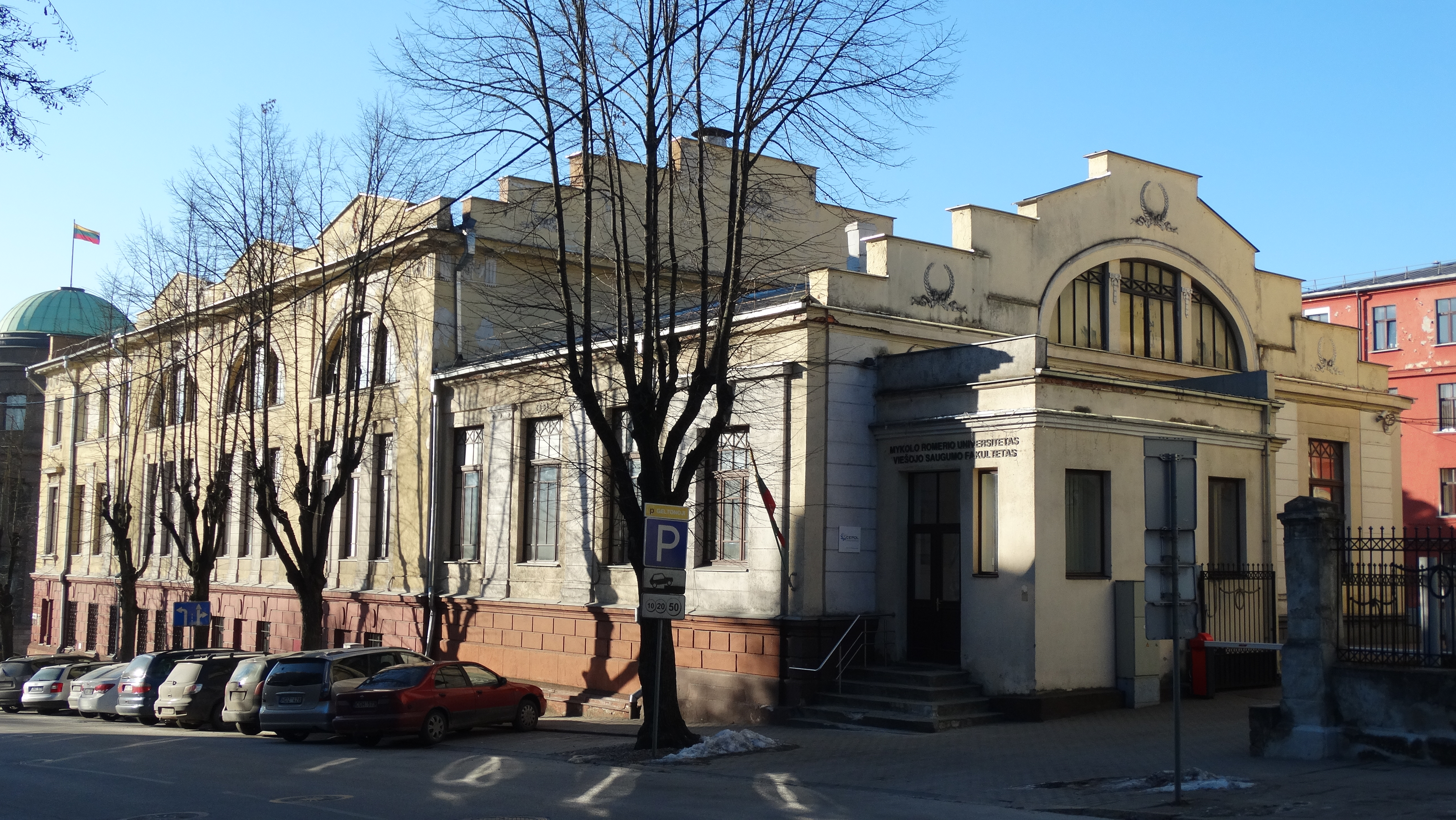 News agency ELTA in 1920. Now – MRU, Faculty in Kaunas, Lithuania